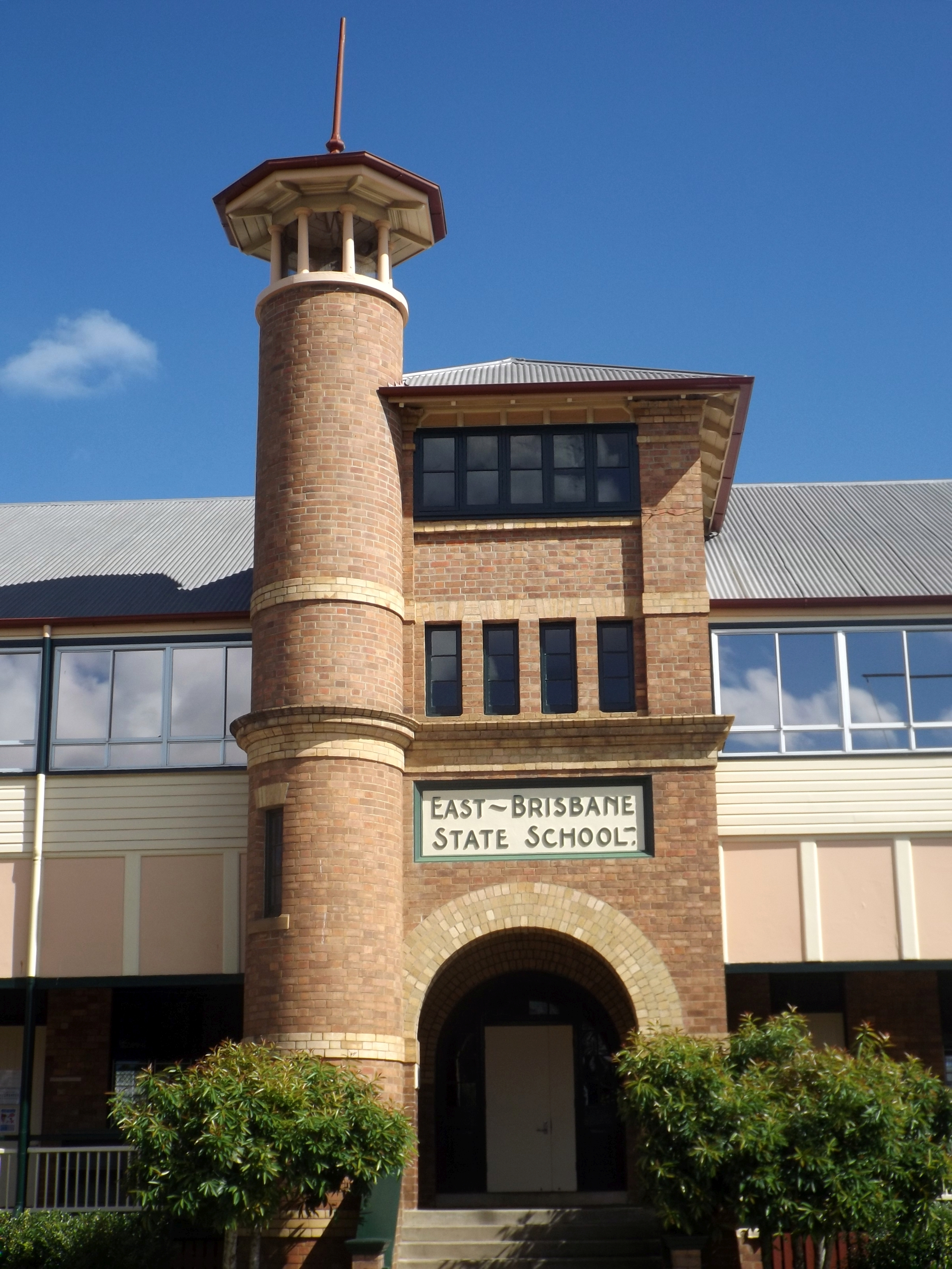 Photo of East Brisbane State School at East Brisbane, Brisbane, Queensland, Australia.